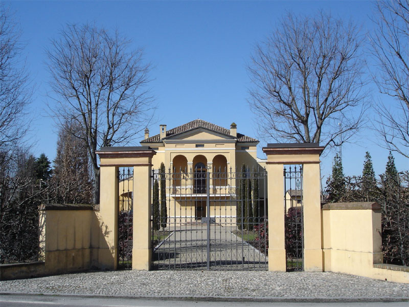 Description Villa Galantina in Vicomero, Parma - Italy. Date March 7, 2006 Location Vicomero - Parma - Italy Photographer Vittorio Minari